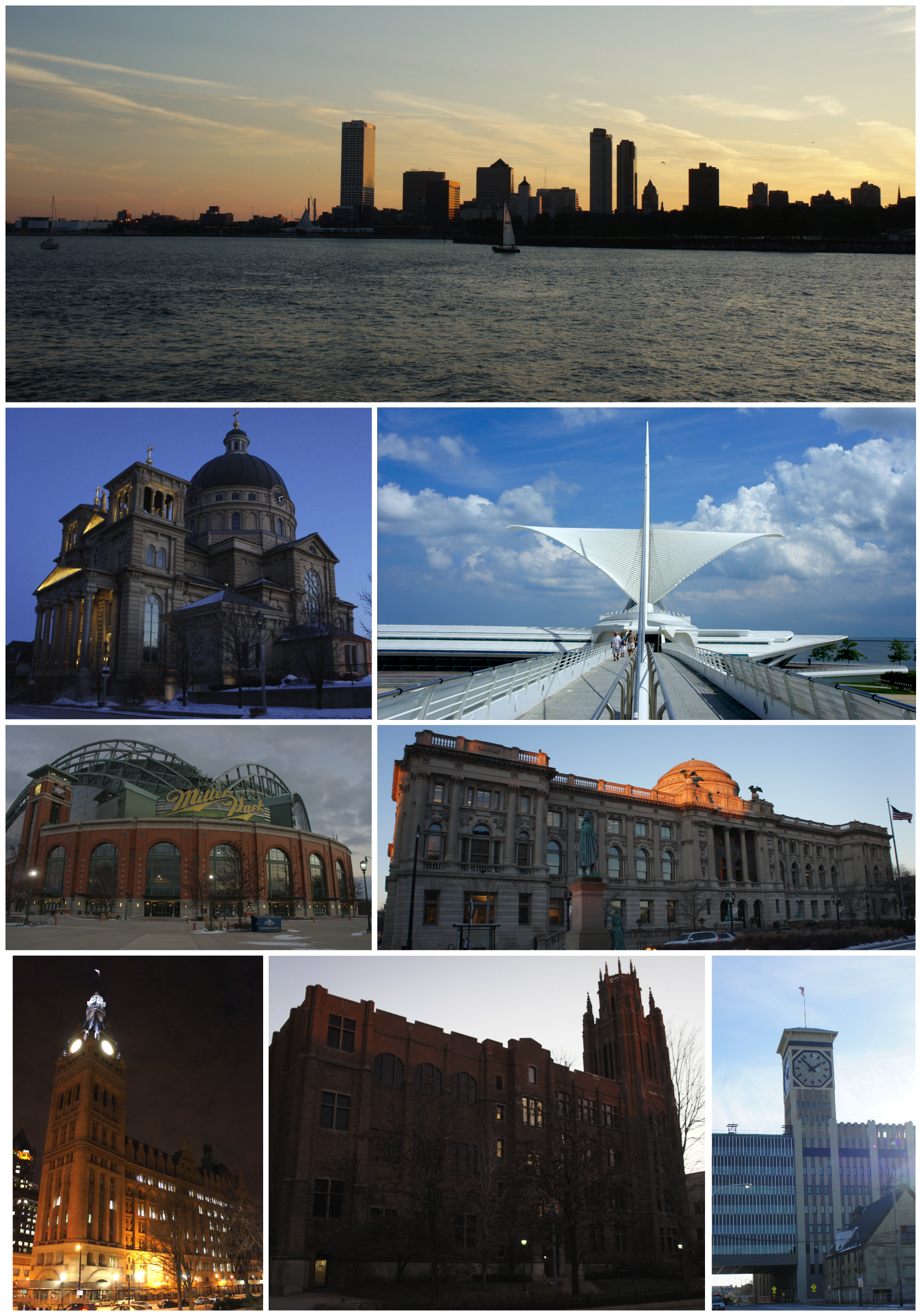 A collage of images of landmarks in Milwaukee, Wisconsin, taken in 2013 and 2014. Clockwise, from top: Milwaukee skyline, Milwaukee Art Museum, Milwaukee Central Library, Allen-Bradley Clock Tower, Marquette Hall at Marquette University, Miller Park, and the Basilica of St. Josaphat.